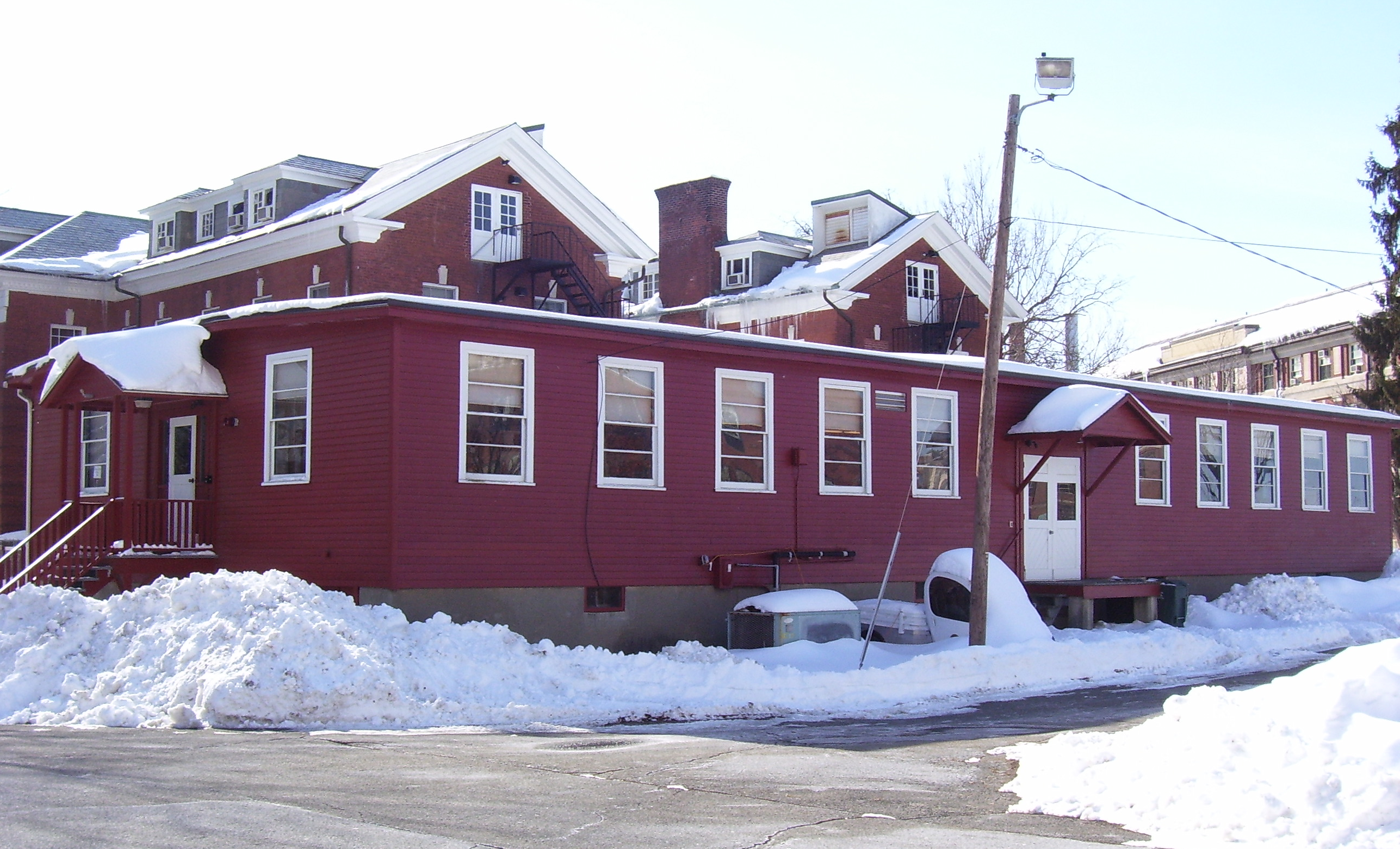 The Draper Hall Annex with the original Draper Hall building in the background